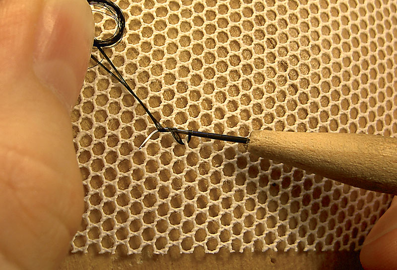 Making theatrical wigs (a false beard in this case). Fine strands of hair are tied to a net-like base.